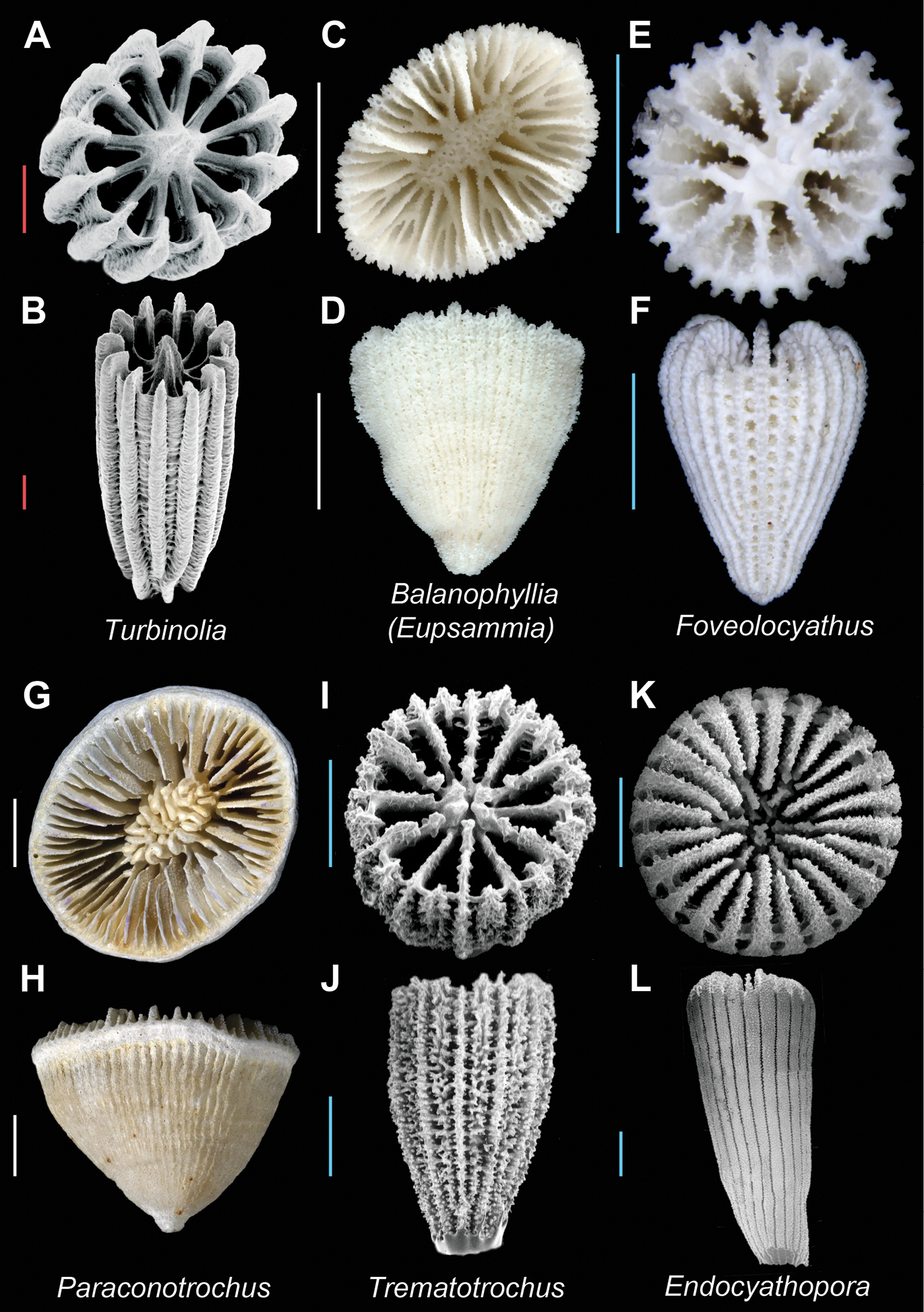 Turbinolia stephensoni (USNM 80014) A (SEM) and B (SEM): Calicular and oblique view respectively; Balanophyllia (Eupsammia) carinata (MNHN uncatalogued, Chalcal stn. D22) C and D Calicular and lateral view respectively; Foveolocyathus parkeri (MNHN uncatalogued, Musorstom 5 stn. 280)E and F Calicular and lateral view respectively; Paraconotrochus zeidleri(USNM 85677, paratype) G and H Calicular and lateral view respectively; Trematotrochus corbicula (USNM 46477) I (SEM) and J (SEM): Calicular and lateral view respectively; Endocyathopora laticostata (USNM 81894) K (SEM) and L (SEM): Calicular and lateral view respectively. Scale bars: red = 0.25 mm; blue = 1 mm; white = 5 mm; green = 50 mm. Bold face indicates type species for the genus.